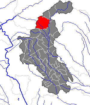 This map shows the area of the Gemeinde (municipality) Fischbach in the Bezirk (district) Weiz, Styria, Austria.